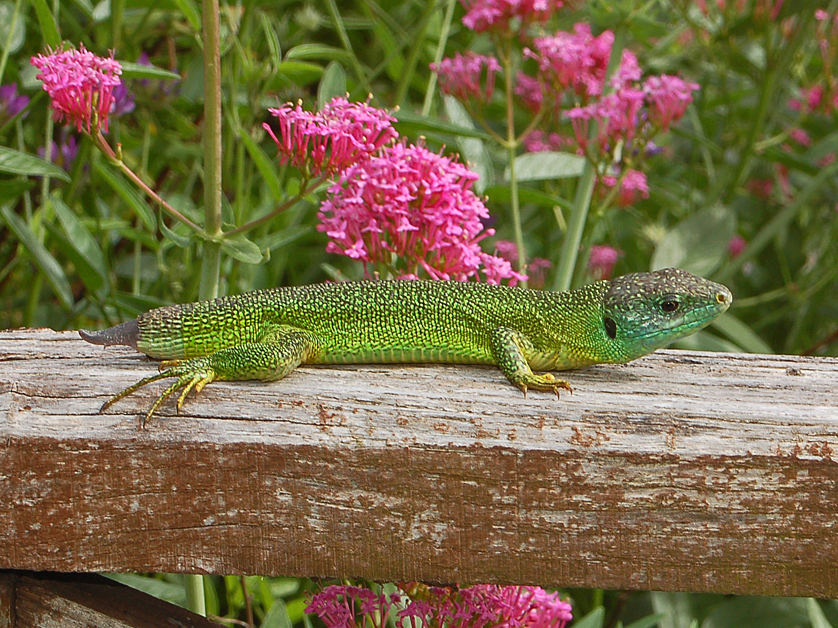 Adult male of Lacerta bilineata regenerating its previously shed tail (autotomy). San Bernardo, Genova, Italy